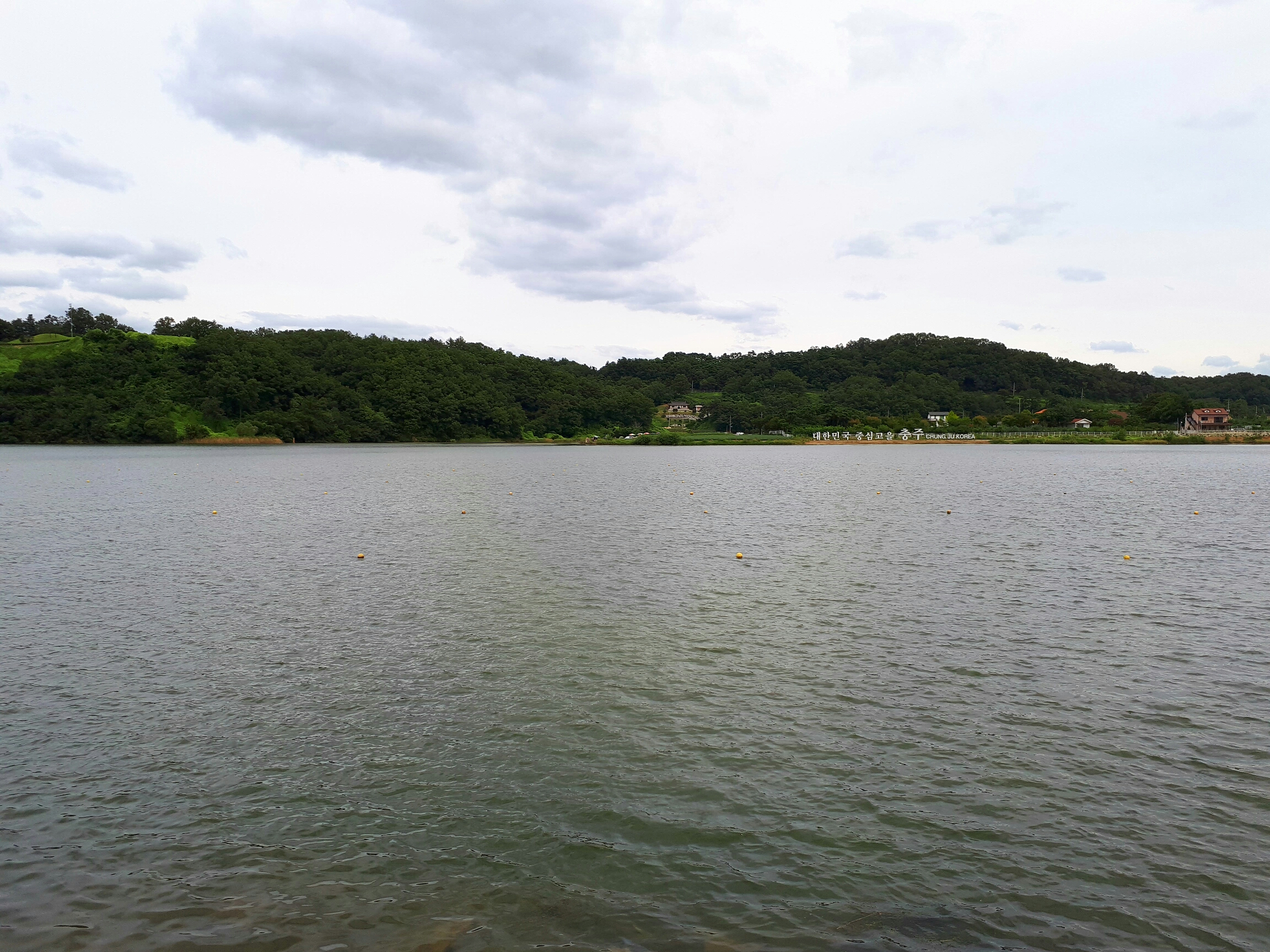 Tangeum Lake (2013 World Rowing Championship venue)